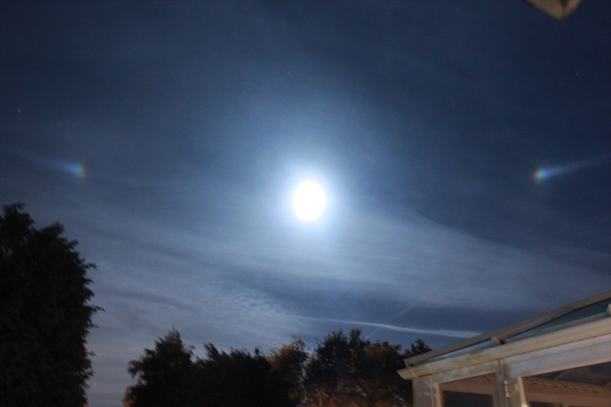 The image was taken on a cold night on 25th October 2015, the temperature was 6 degrees Celsius and the humidity was about 80%. It shows two moon dogs - like rainbows but formed with a bright moon and high icy clouds. These are particularly colourful ones, most are white light.